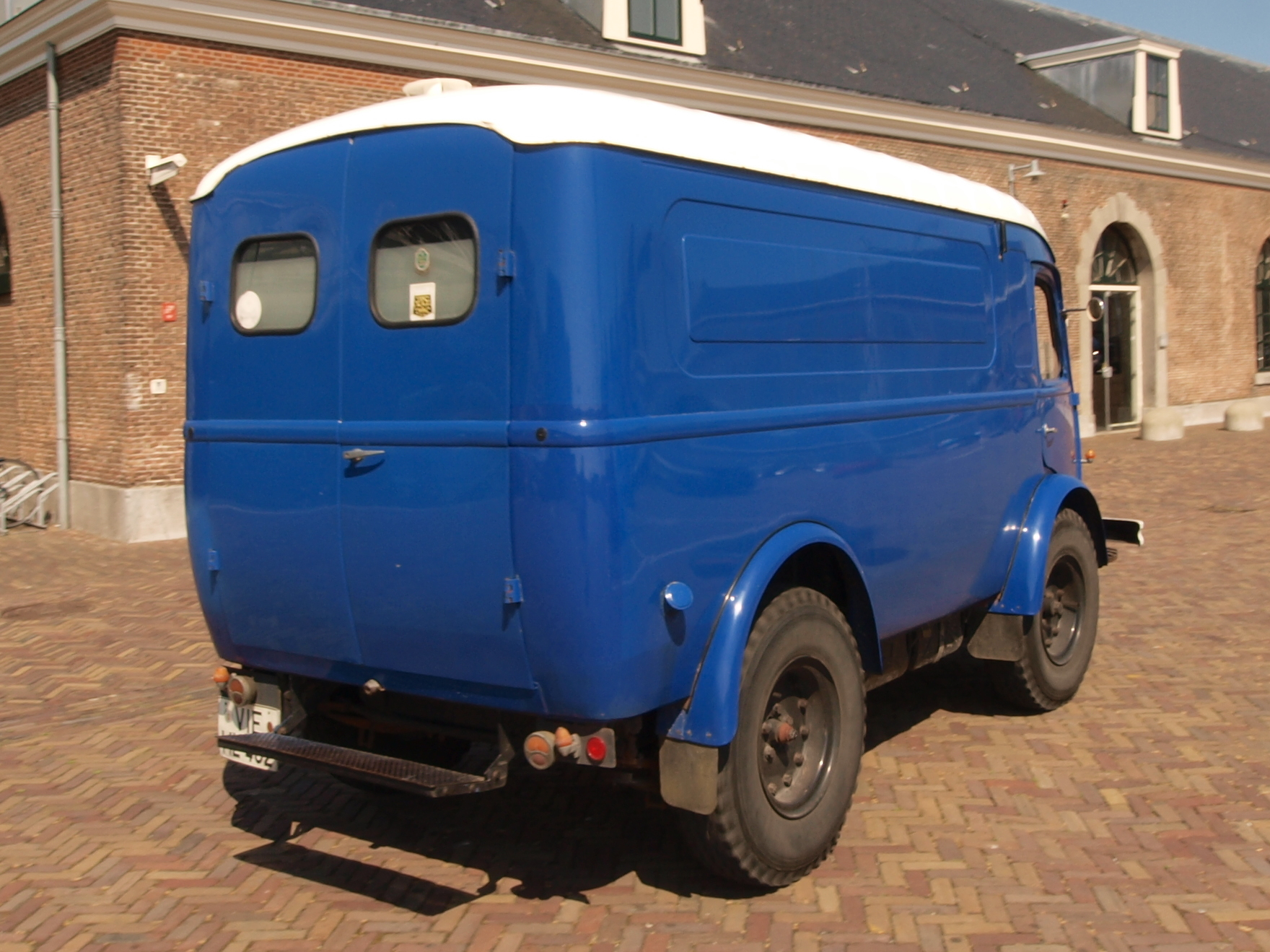 Photographed at Den Helder, The Netherlands. OLYMPUS DIGITAL CAMERA